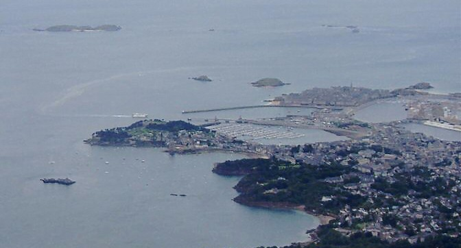 Aerial view of the tidal barrage on the Rance and of Saint Malo